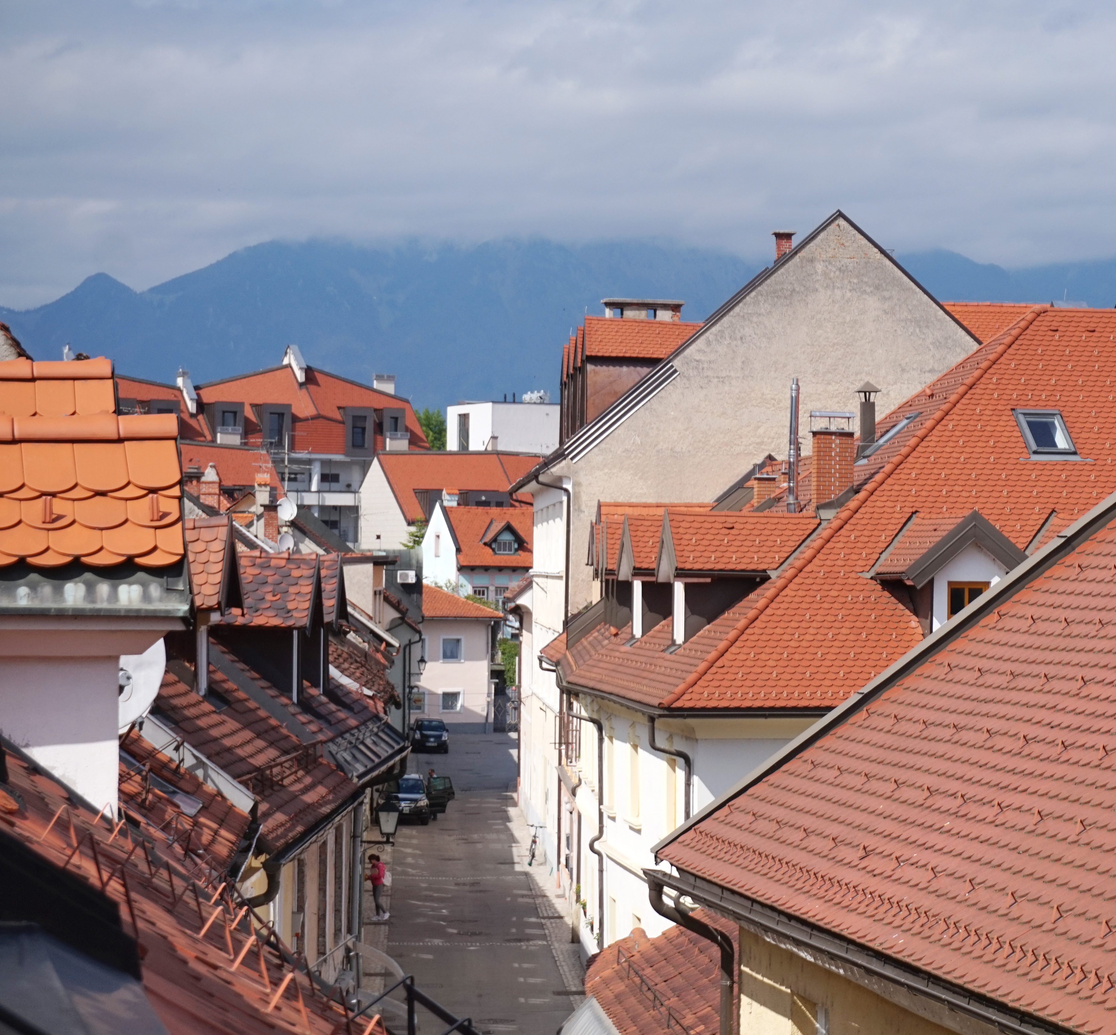 Tomšičeva ulica in Kranj, Slovenia. This photograph was taken with a Sony Alpha a5000.